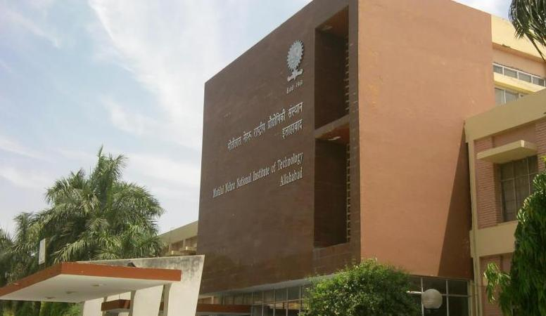 Side view of MNNIT Academic block